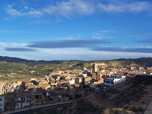 Riba-roja d'Ebre at a distance